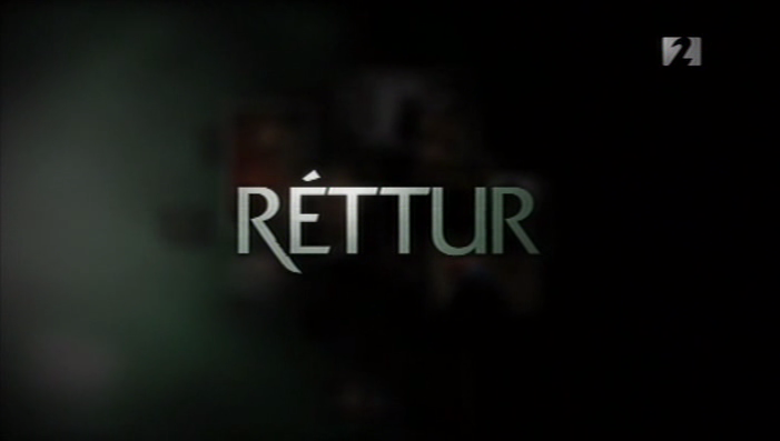 Title card for the Icelandic Television show Réttur (case)